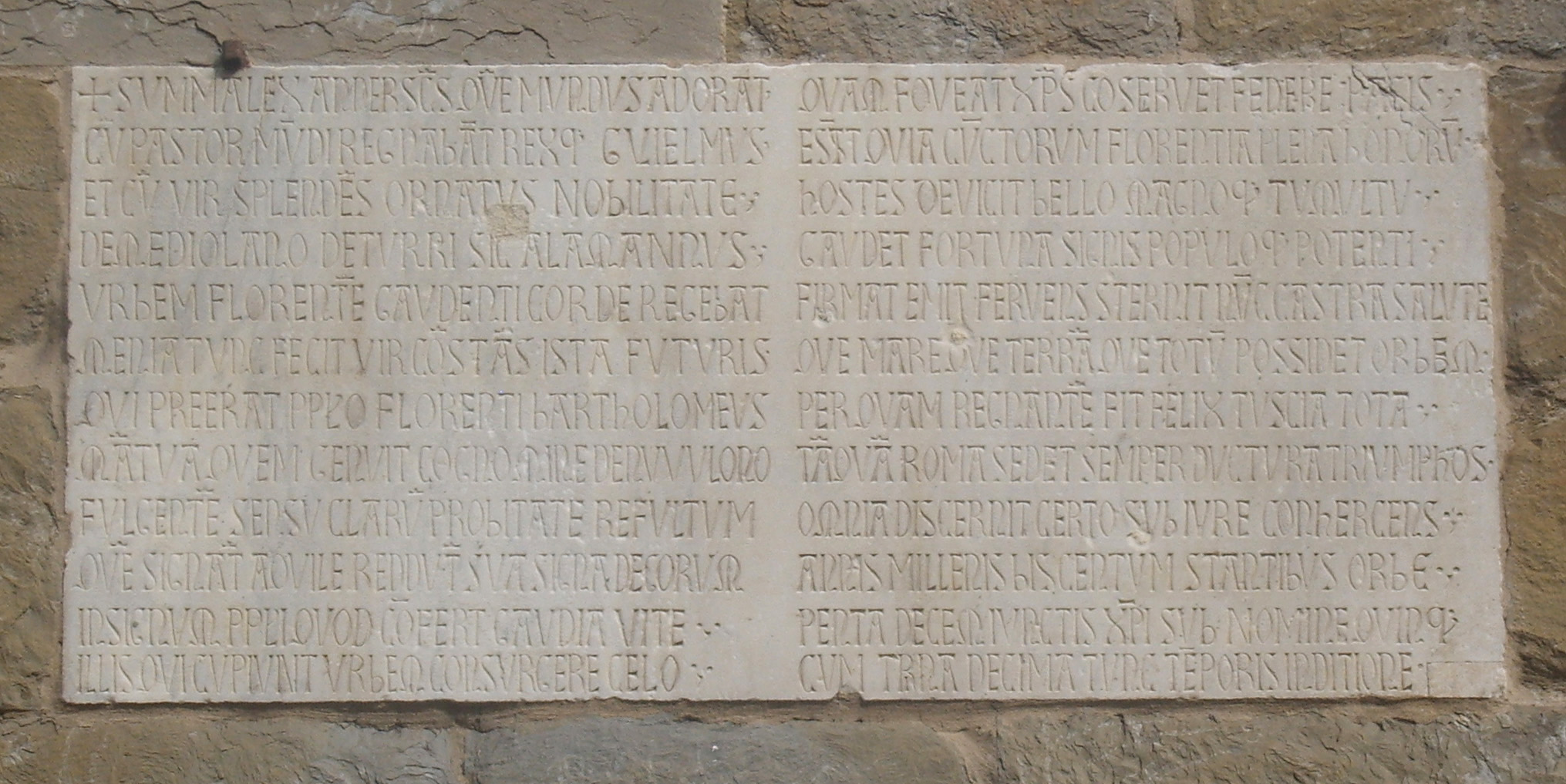 A Latin inscription on the Bargello palace, in Florence, Italy.